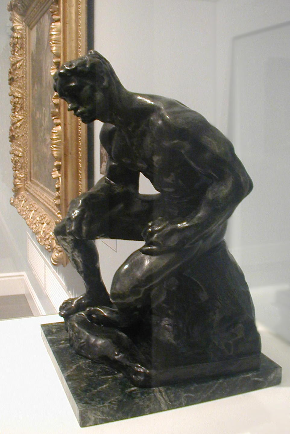 The Athlete (c1901-1904) by Auguste Rodin, Haggin Museum, Stockton, CA